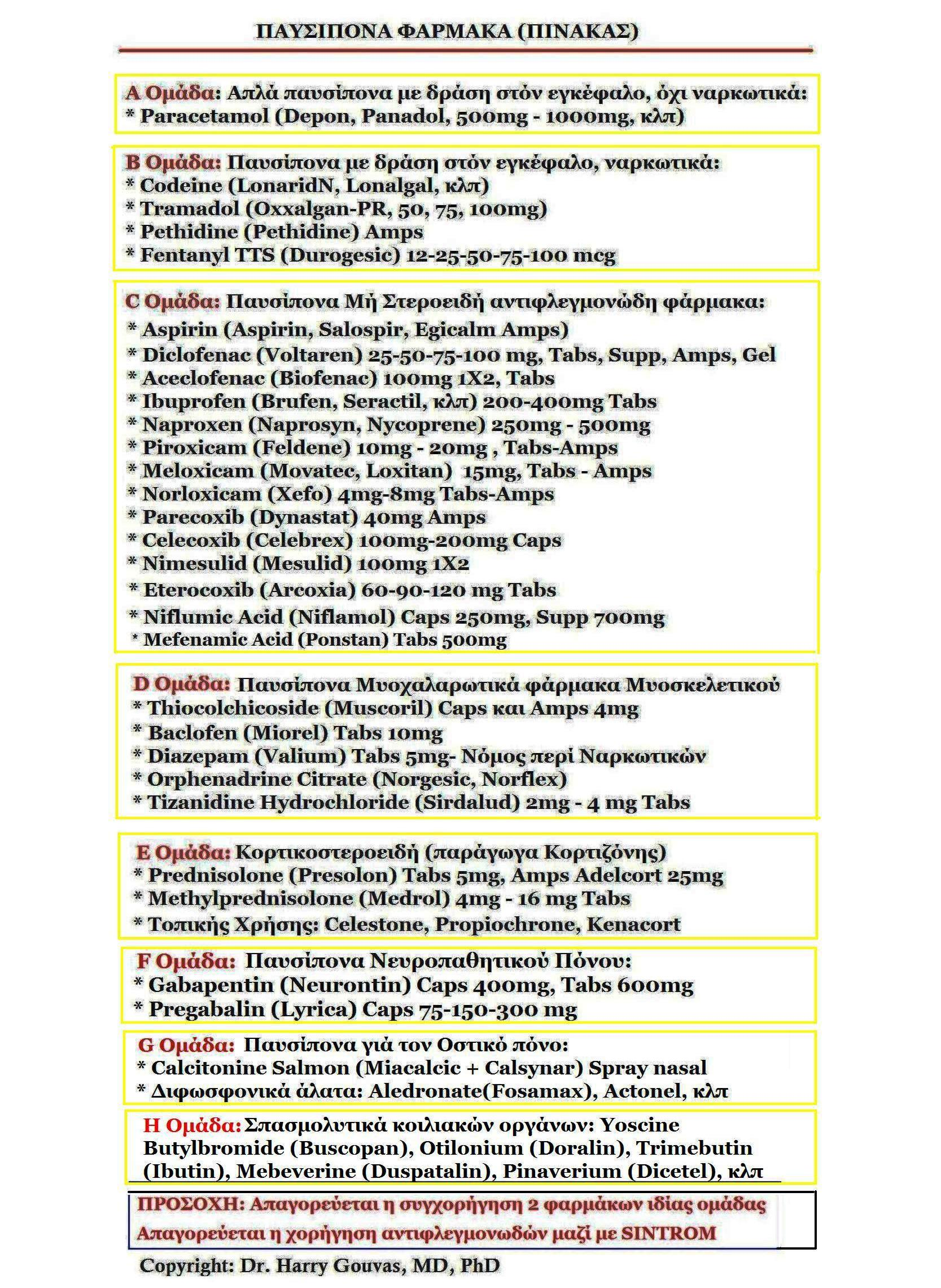 Painkillers table in greek